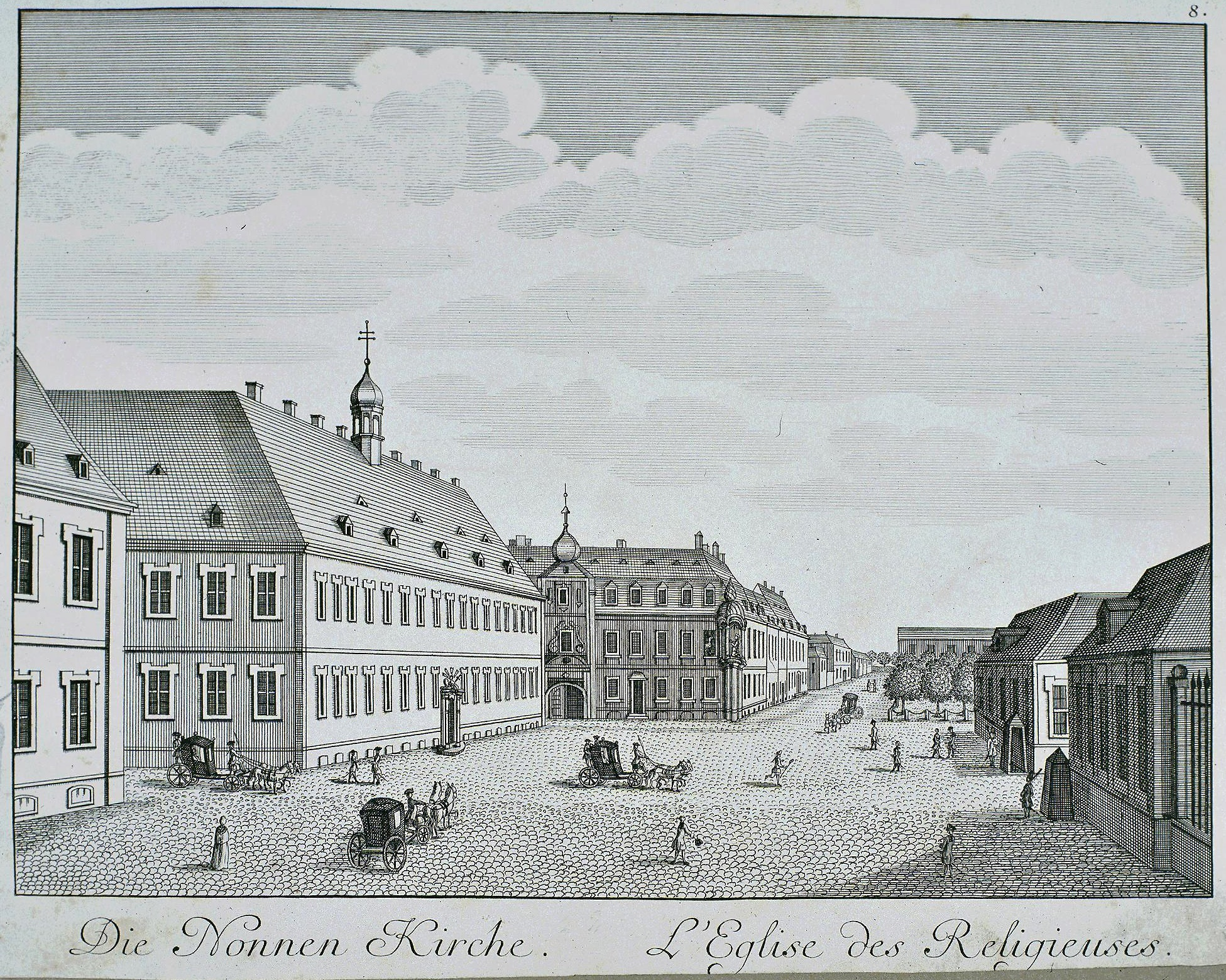 Augustinerinnenstift Mannheim (auch Nonnenkirche genannt), Mannheim L 1, nicht mehr existent